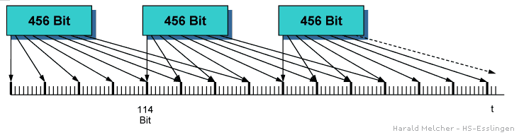 GSM Speech Interleaving